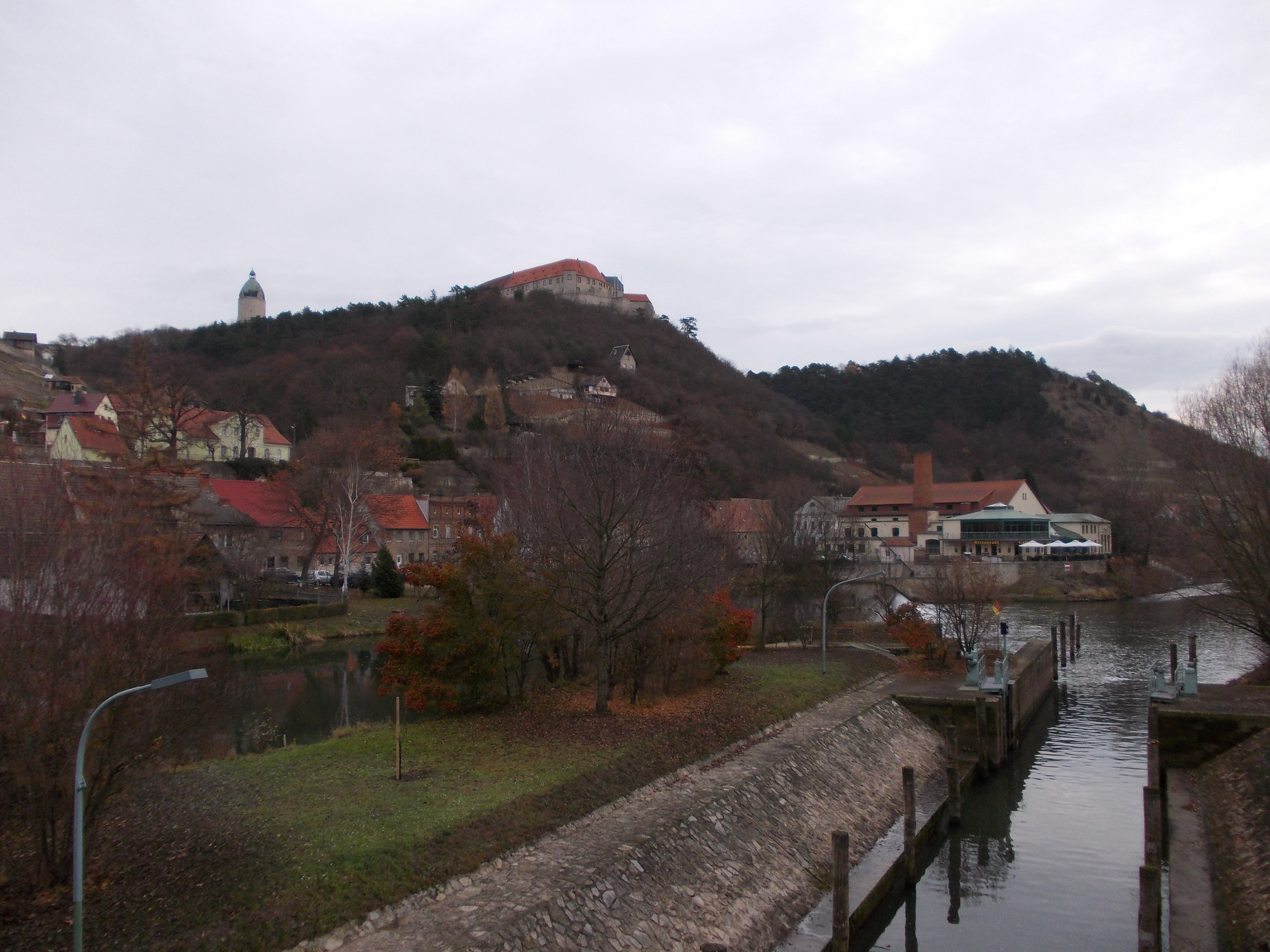 Freyburg/Unstrut (district of Burgenlandkreis, Saxony-Anhalt), view from the lock to Neuenburg Castle